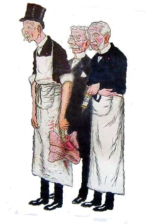 Excerpt from File:Adrien Barrère33c.jpg, showing left to right Victor Cornil (1837-1908) (Pathology), Paul Berger (1845-1908) (Member of the Academy of Medicine), Felix Guyon (1831-1920) (Urology)